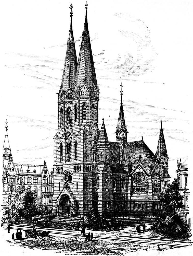 Third Evangelical Church in Wiesbaden.